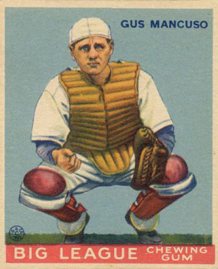 1933 Goudey baseball card of Gus Mancuso of the New York Giants #41.